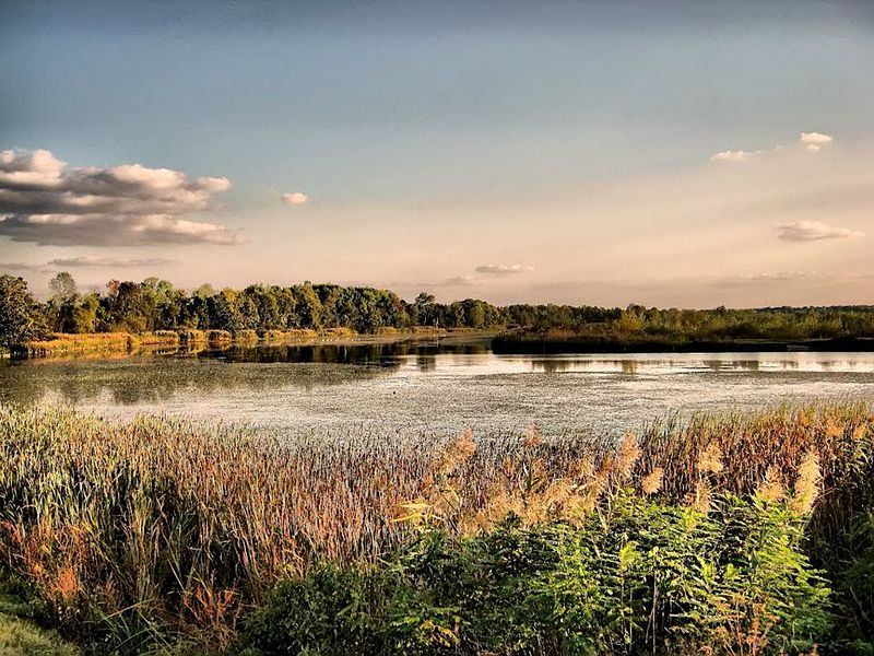 Jezero